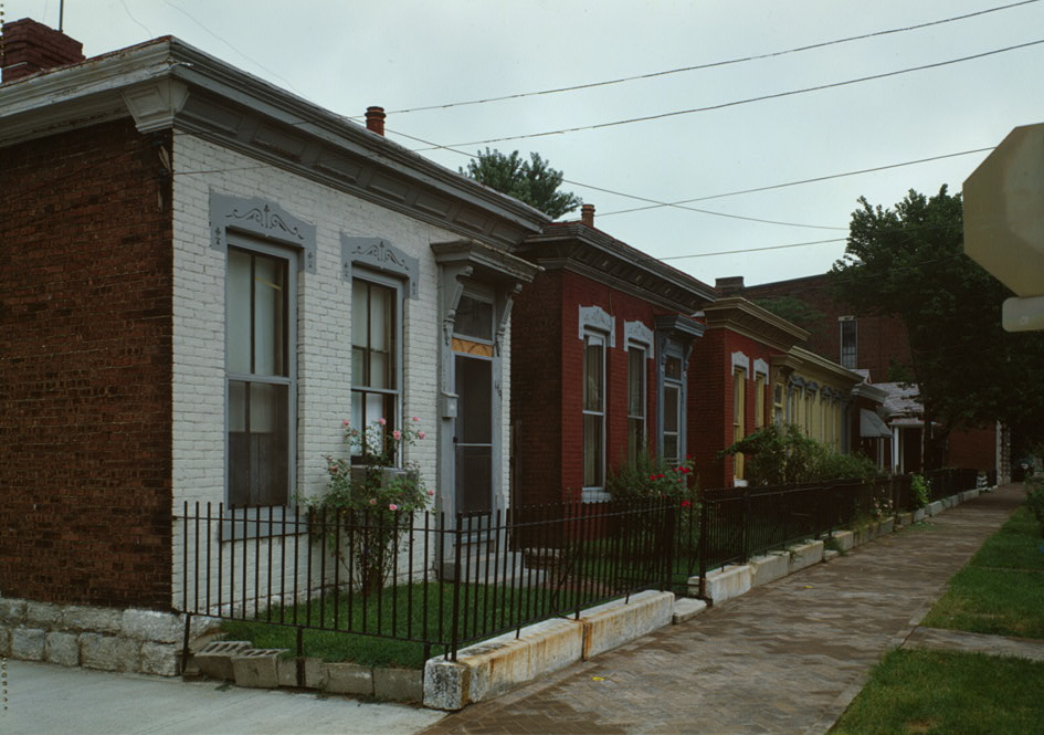 Shotgun houses starting at 1401 East Washington Street in Louisville, Kentucky.